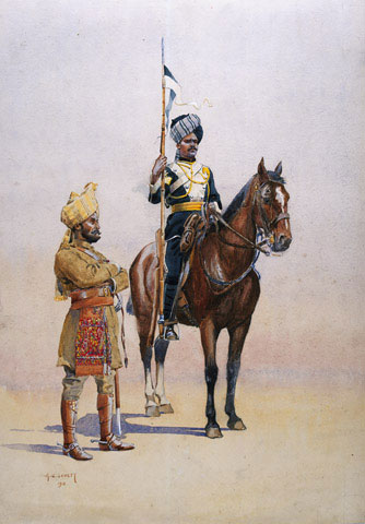 A dismounted Indian officer standing beside a mounted lancer. The Mysore state forces included a lancer unit, reorganised in 1892 for the Imperial Service Troops (IST) scheme, and a transport unit. The IST had been established to train the troops of Indian princely states up to the standard of the Indian Army. This is the original artwork for an illustration in Major G F MacMunn's 'Armies of India', published in 1911.